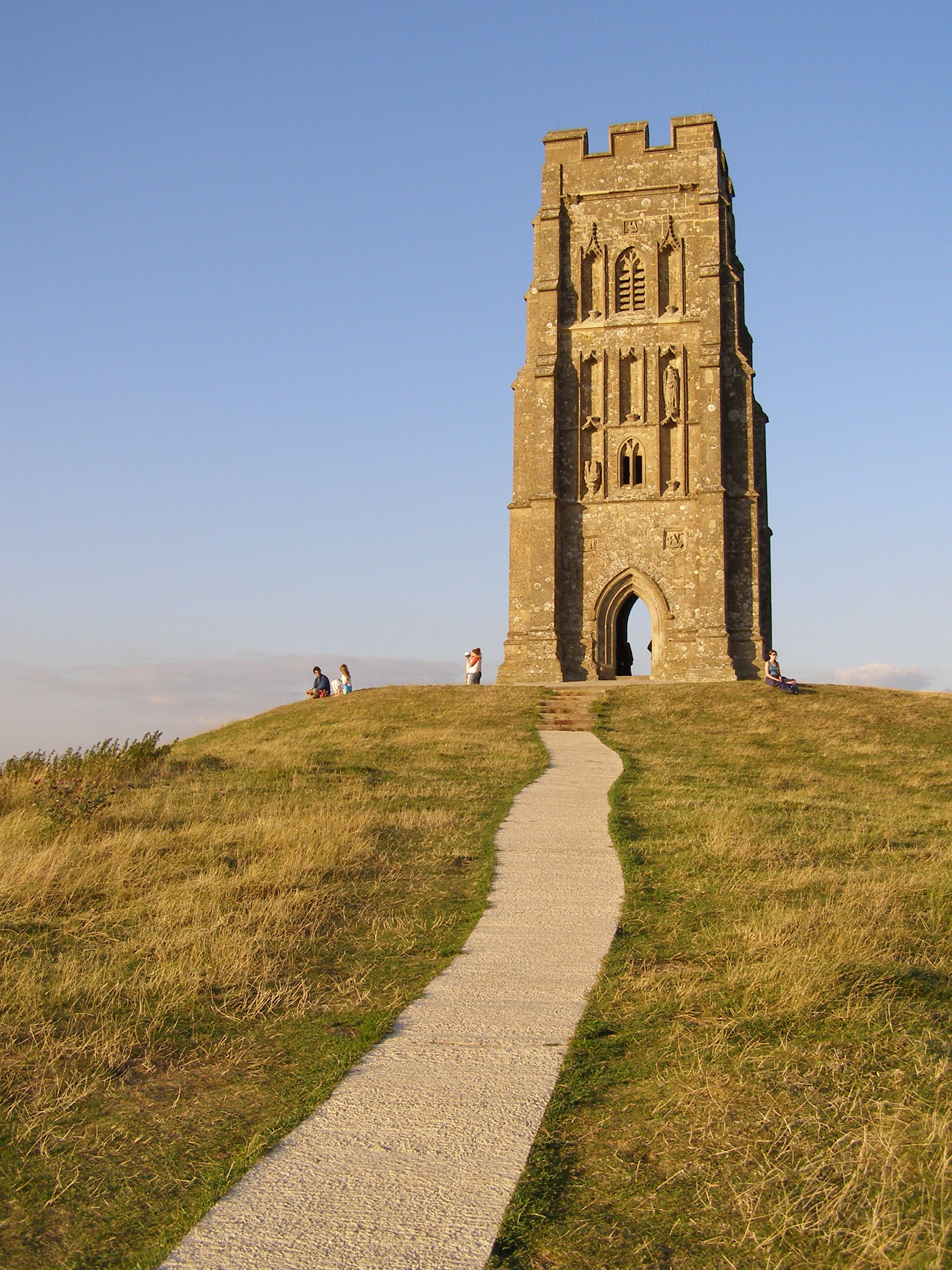 Approaching the summit of Glastonbury Tor, with the ruined (and restored) St Michael's church tower